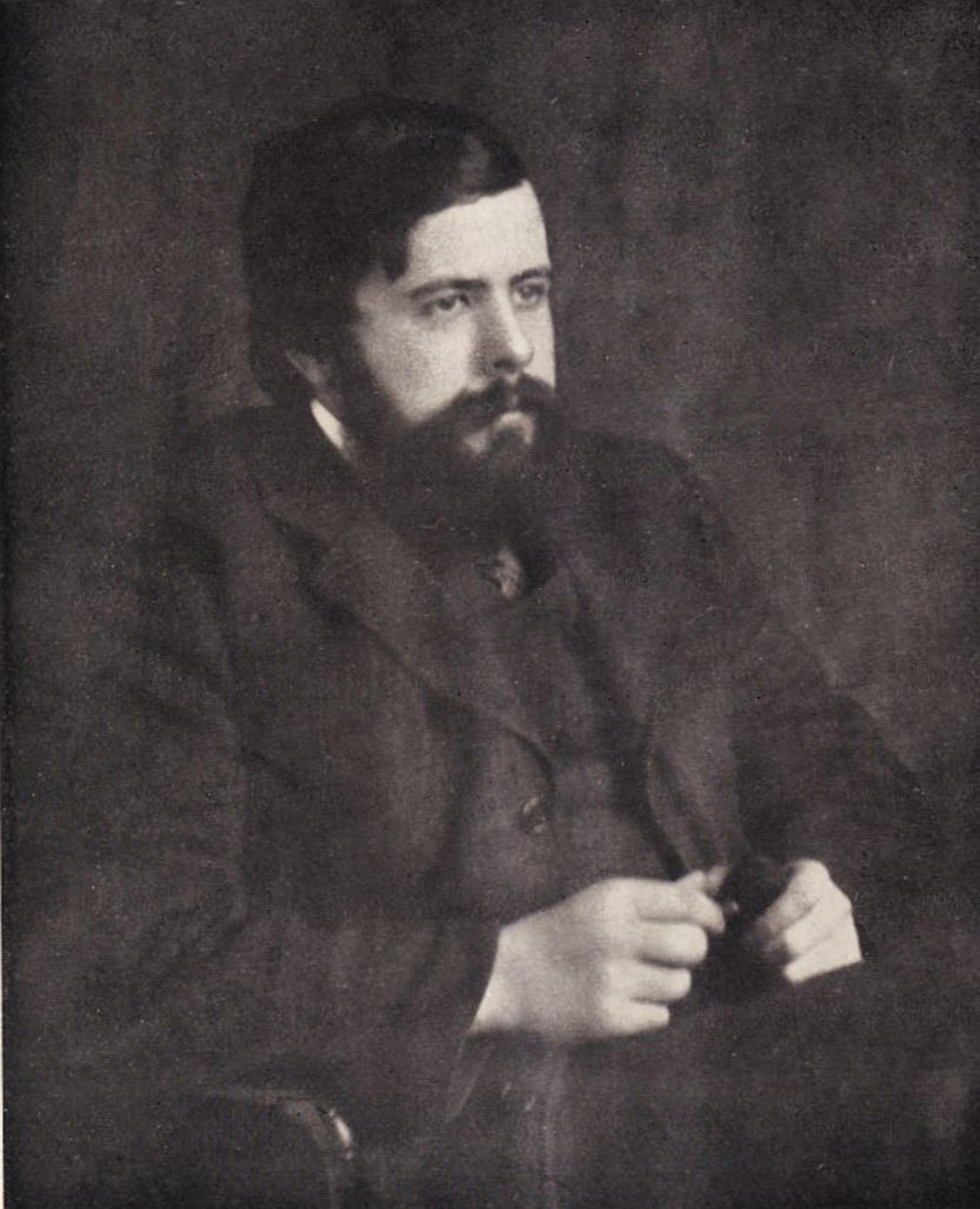 Richard Barham Middleton (28 October 1882 – 1 December 1911) was a British poet and author